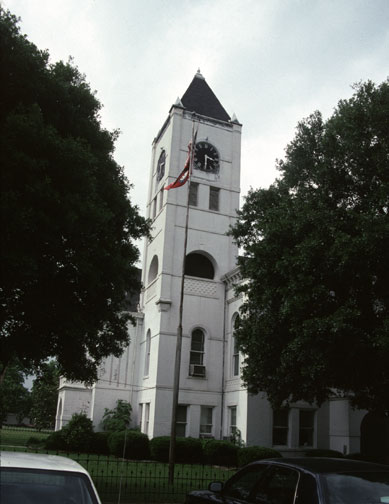 Front of the Desha County Courthouse, located along Robert S. Moore Avenue in Arkansas City, Arkansas, United States. Built in 1900, it is listed on the National Register of Historic Places.